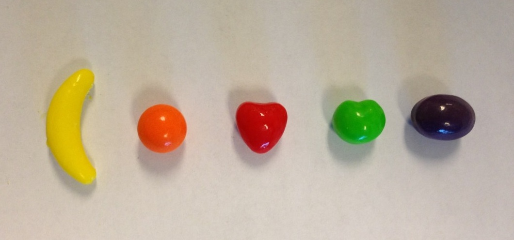 Digital photograph of banana, orange, strawberry, green apple, and grape Runts candy. Taken with an iPhone 5